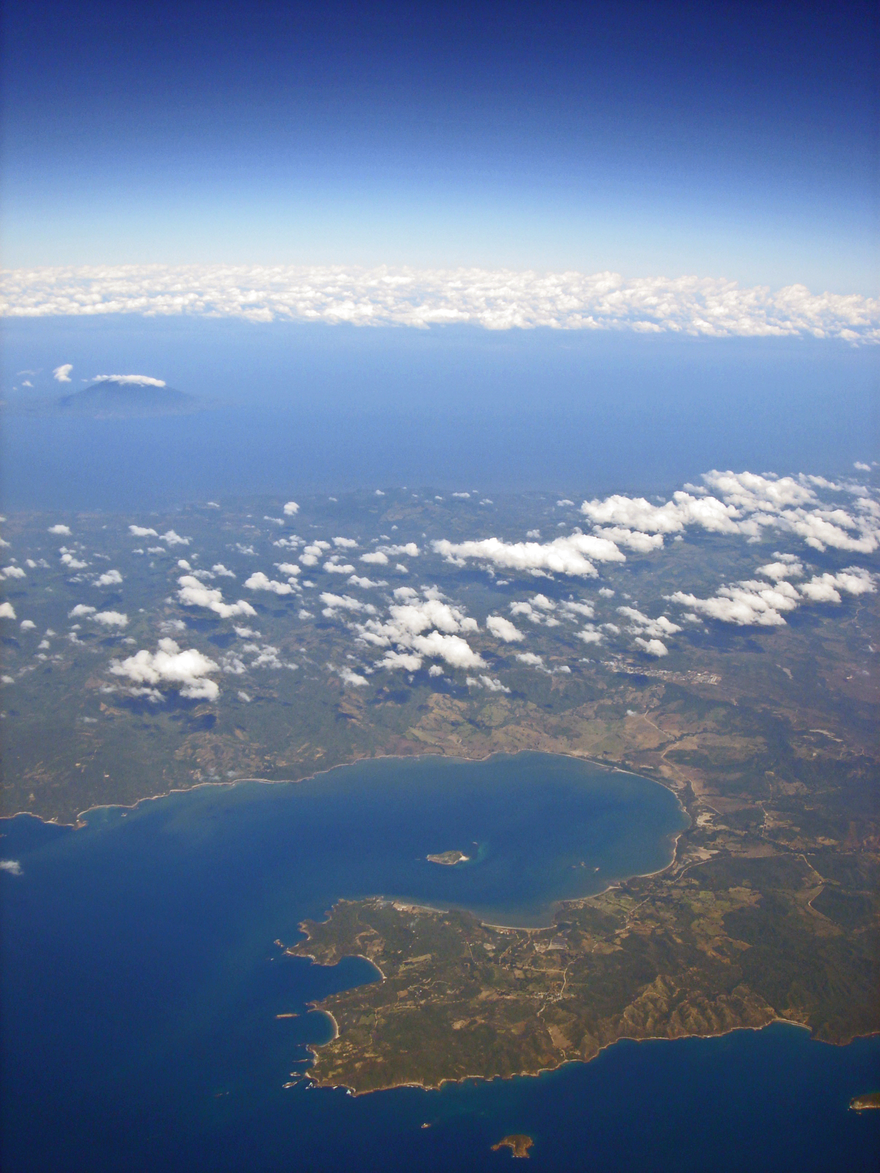 Aerial view Nicaragua-Costa Rica border at the Pacific side. Below, Salinas Bay, and Bolaños Island, Costa Rica; top Lake of Nicaragua and Maderas volcano in the background (left).